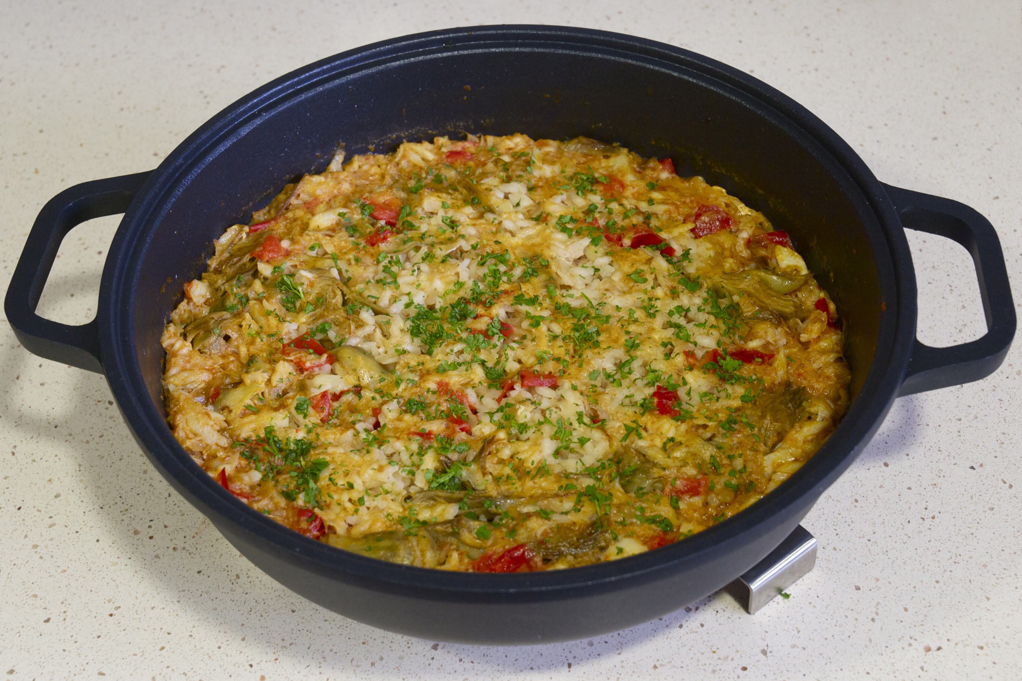 Rice with Cod and Vegetables